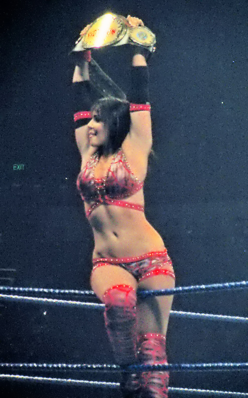 Layla @ Adelaide, South Australia 'Smackdown' house show on the 3rd of August '10